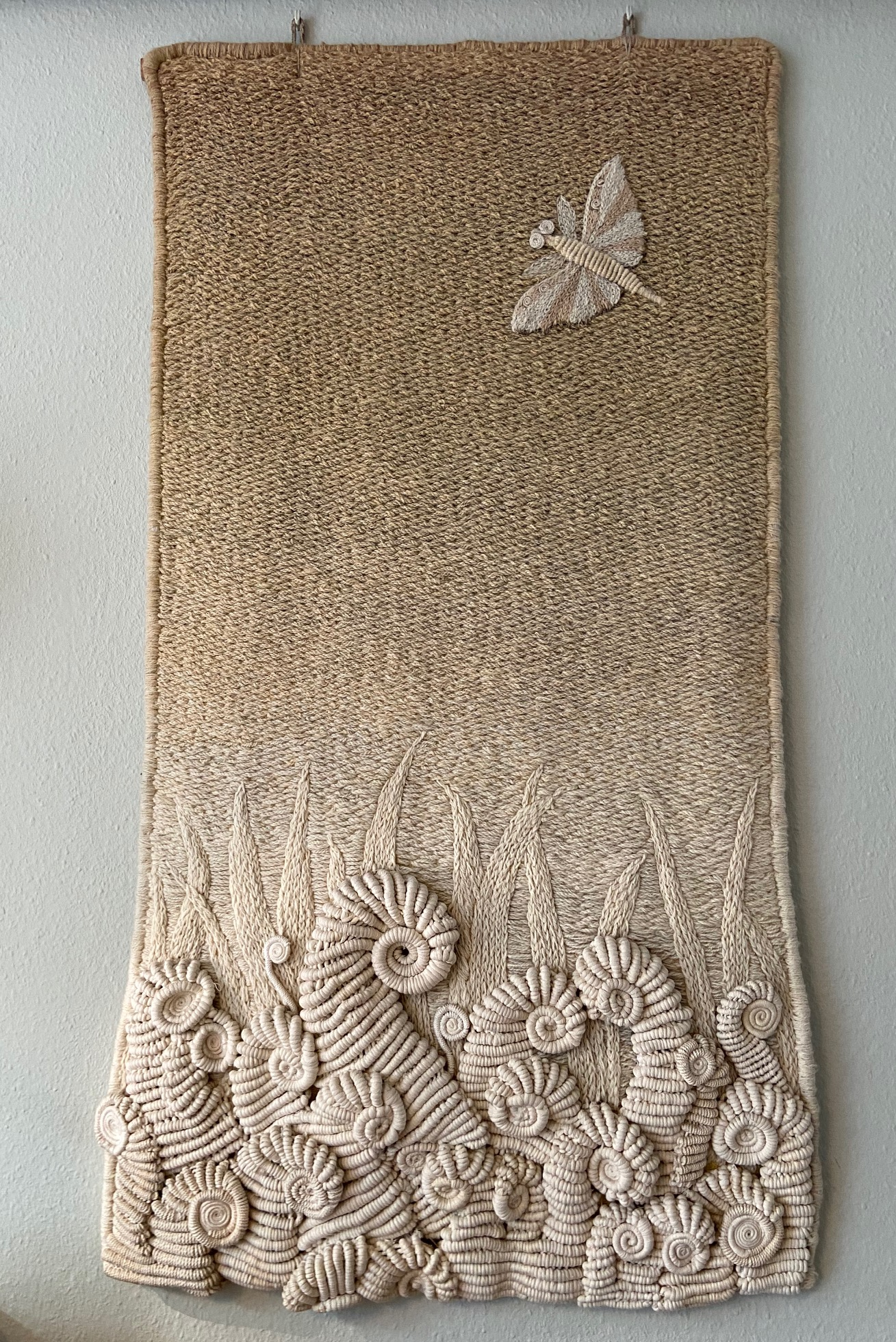 Tapestry "Szuwary" by Jadwiga Budlewska, 84 x 180 cm, 1984, private collection, Germany